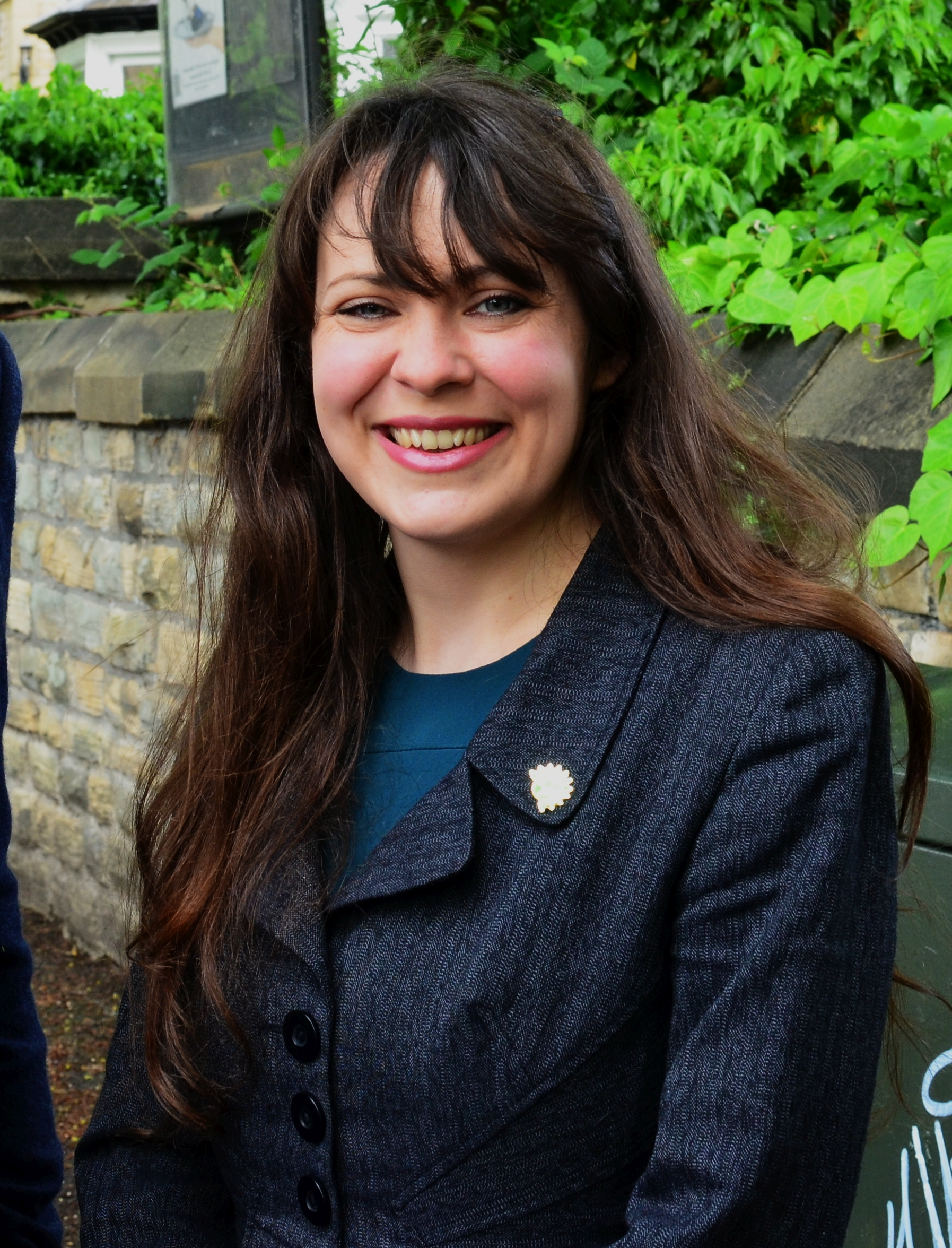 Green Party Deputy Leader Amelia Womack campaigning in Sheffield